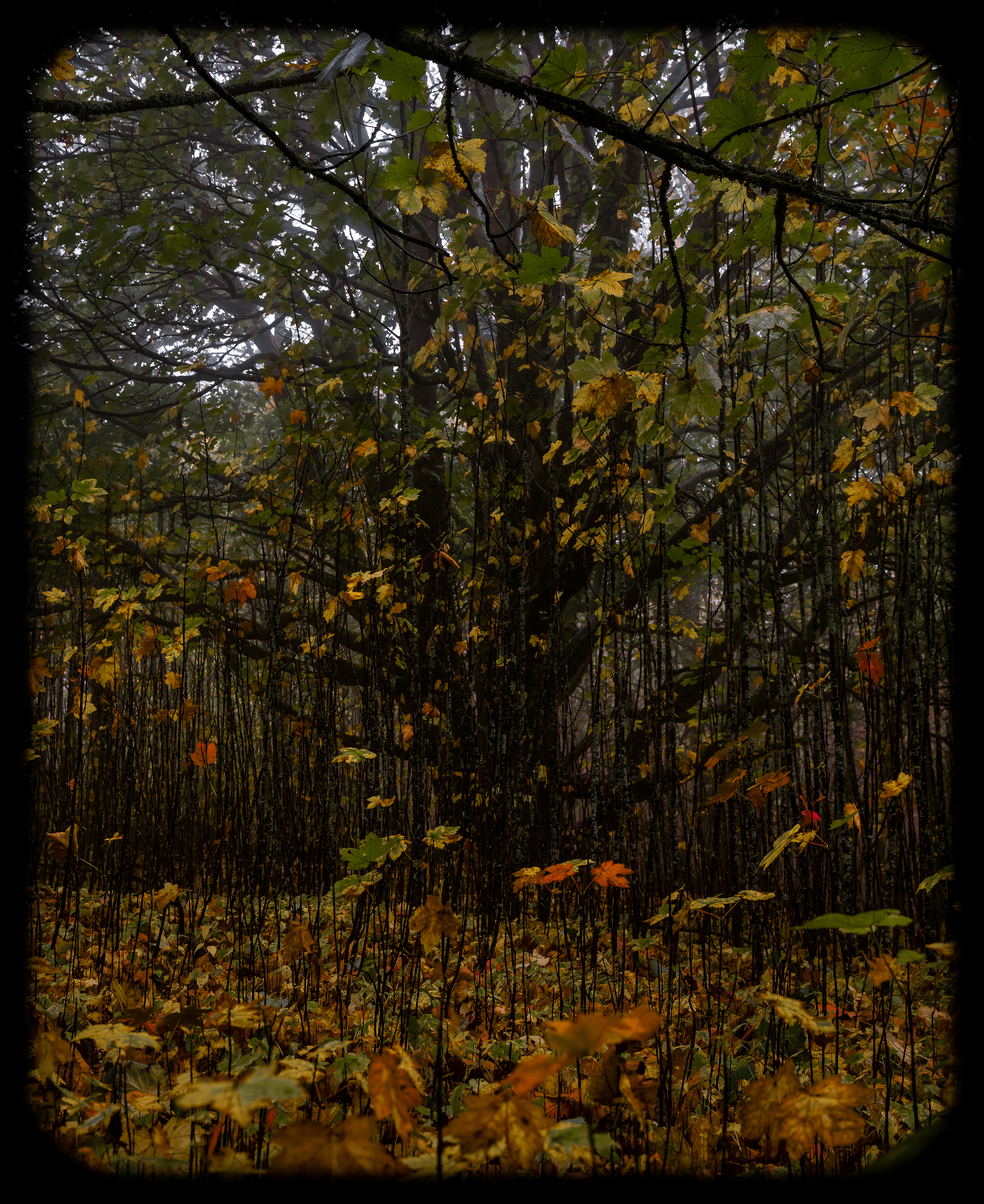 Mount Macedon, Victoria, Australia - 23rd of April, 2016